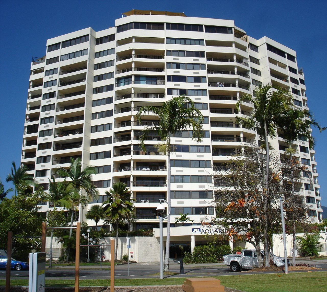 Cairns Aquarius Apartments. 107 Esplanade, Cairns, Queensland, Australia